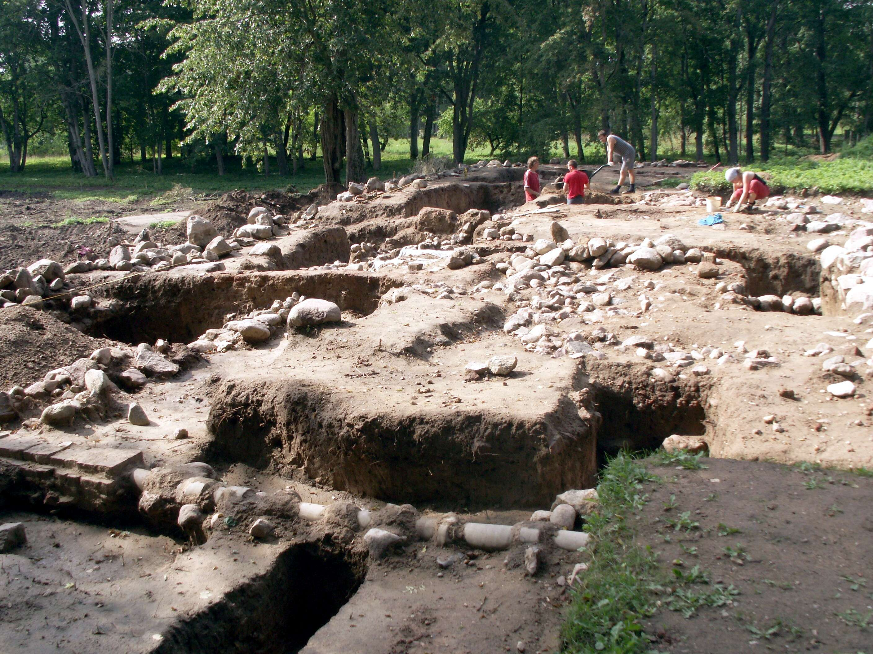 Kurtuvėnai, Kurtuvėnai regional park, Lithuania